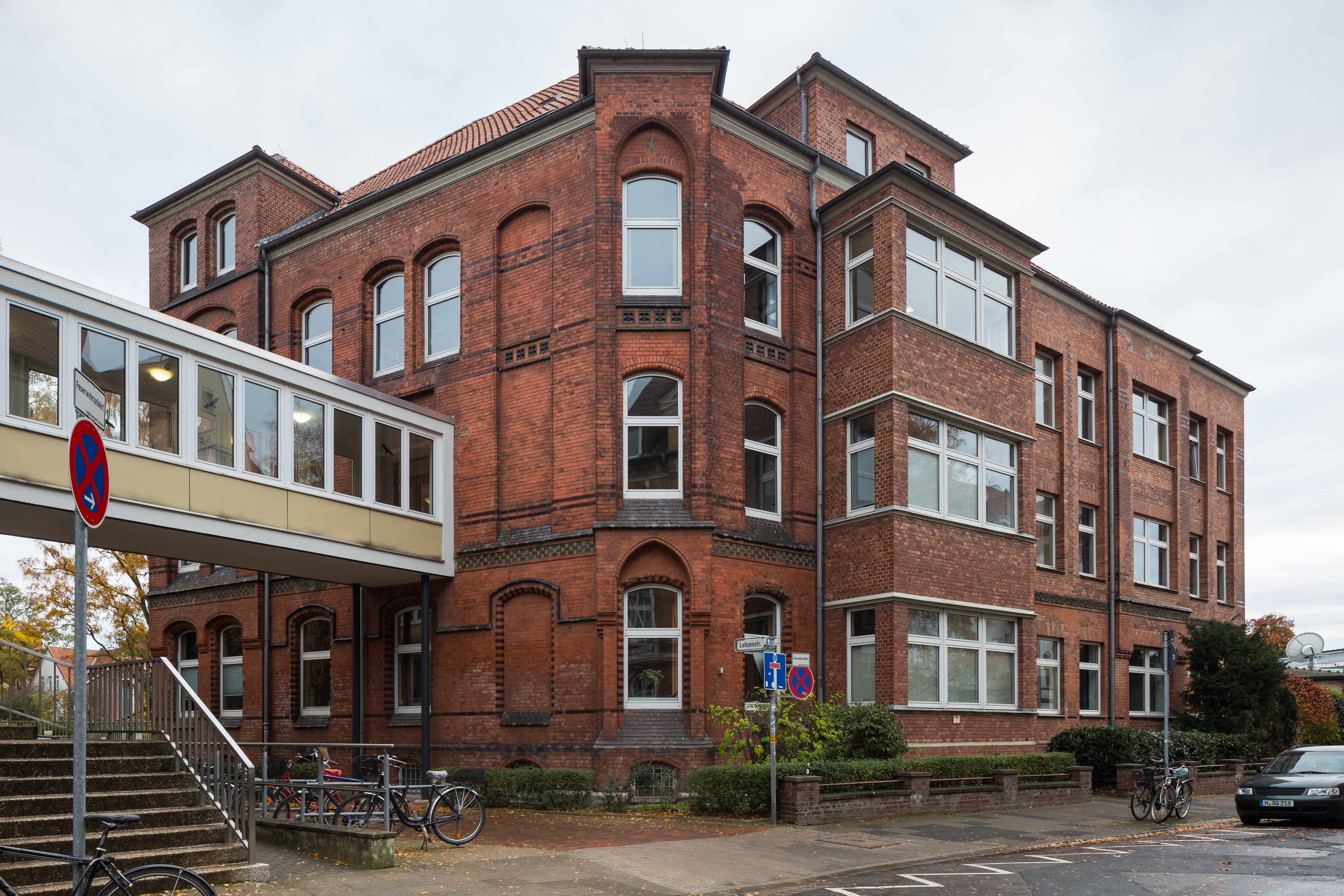 House located at Lehzenstrasse no. 7 and Auf dem Emmerberge in Suedstadt quarter of Hannover, Germany.